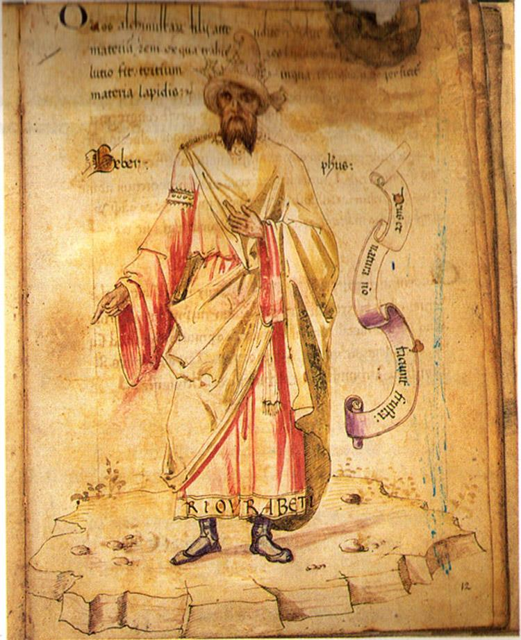 Image of Al Jaahiz. Arab Naturalist, evolutionist and writer. Basra.